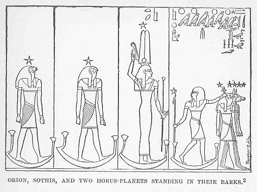 Orion, Sothis, and two Horus-planets standing in their barks